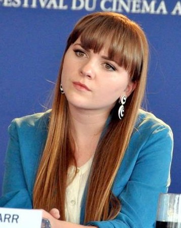 Tara Lynn Barr at the Deauville Film Festival